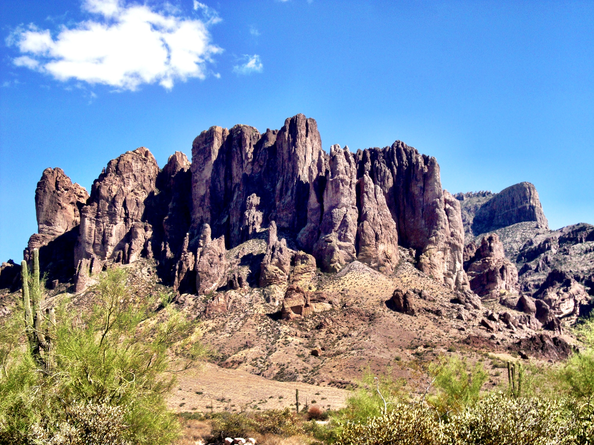 Legendary mountain in Arizona